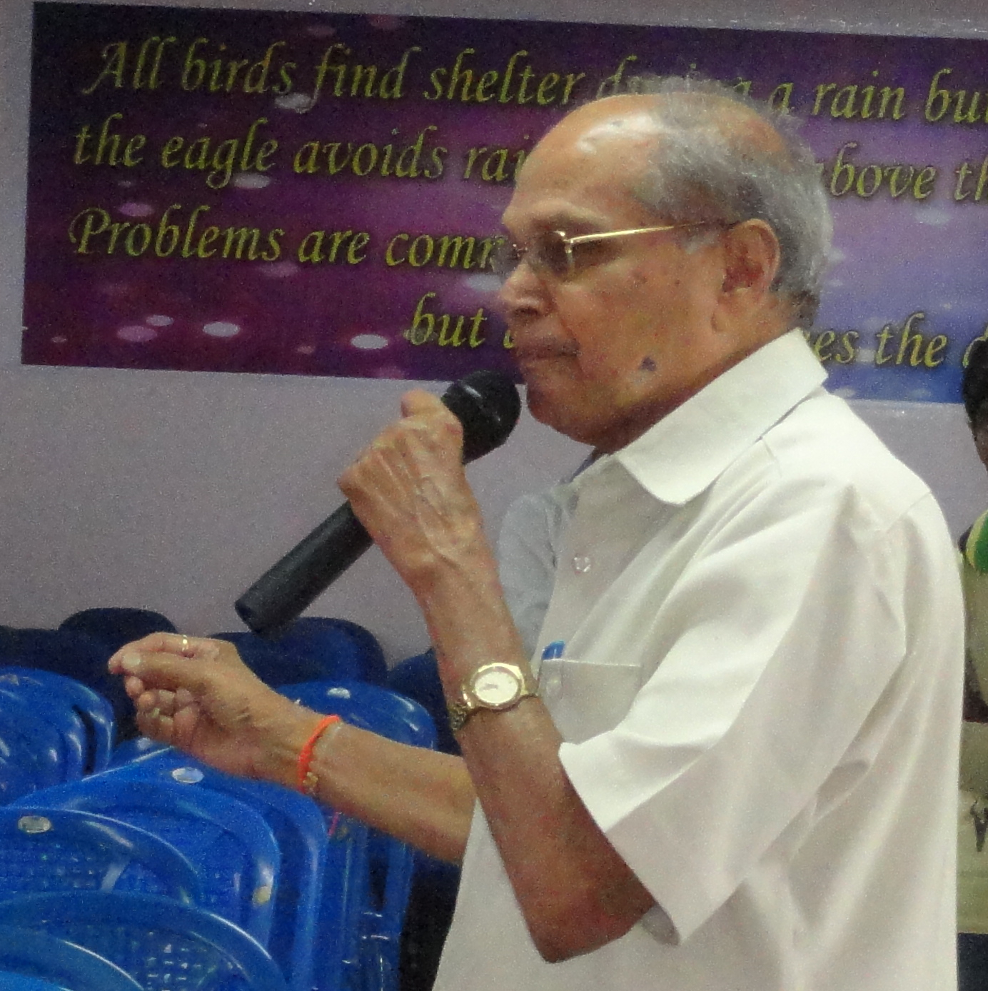 Turlapati Kutumba Rao at Tewiki 10th anniversary event.